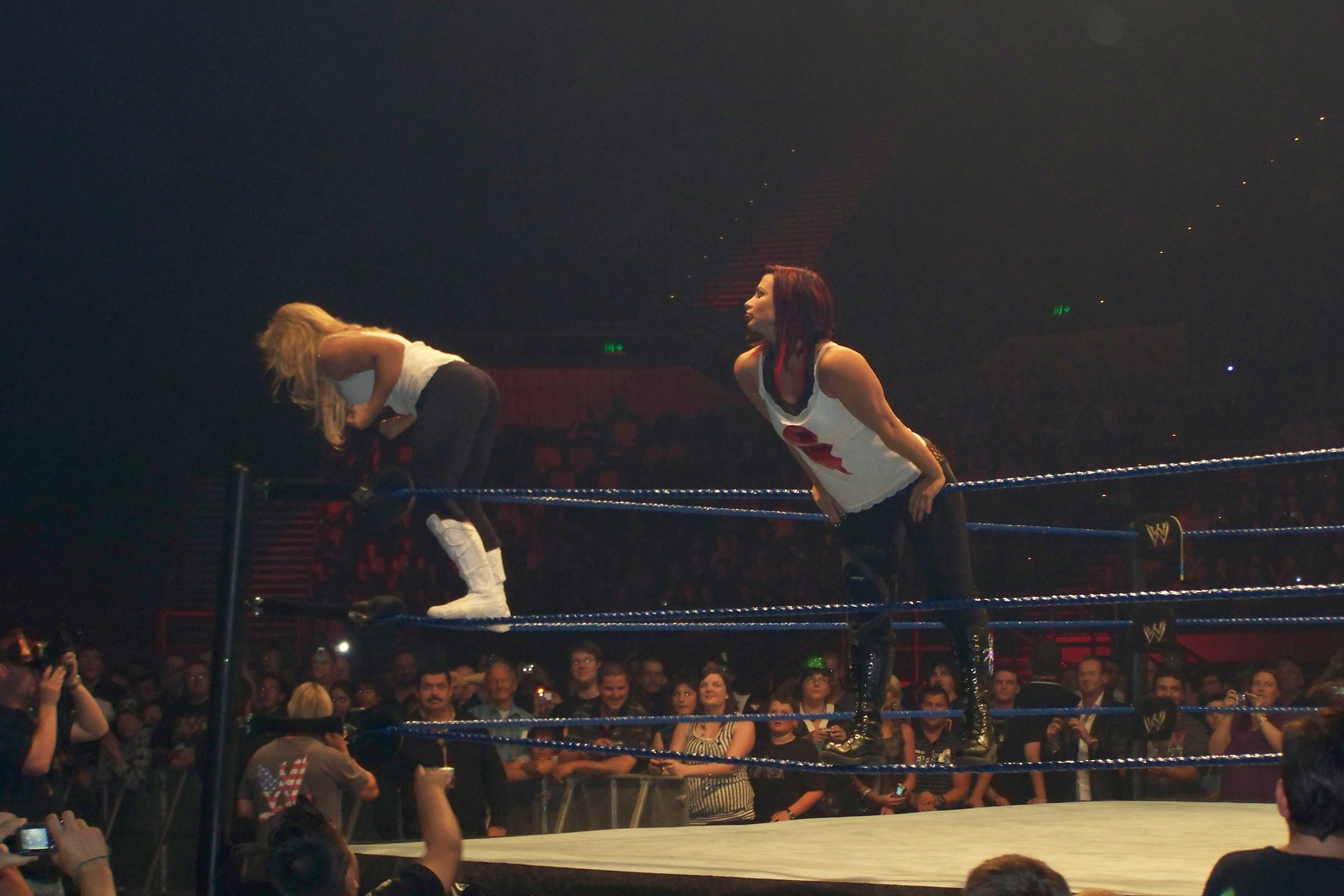 Nattie Neidhart and Victoria making their entrance